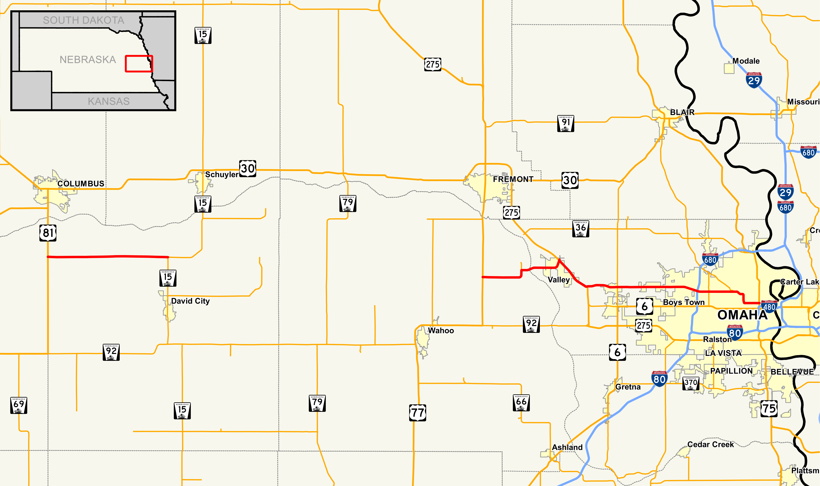 Map of Nebraska Highway 64 Data Sources: Nebraska Highways - - Dec 2016 Nebraska County Boundaries - - Dec 2016 Nebraska City Boundaries - - Dec 2016 This PNG graphic was created with QGIS